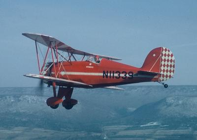 I took this picture